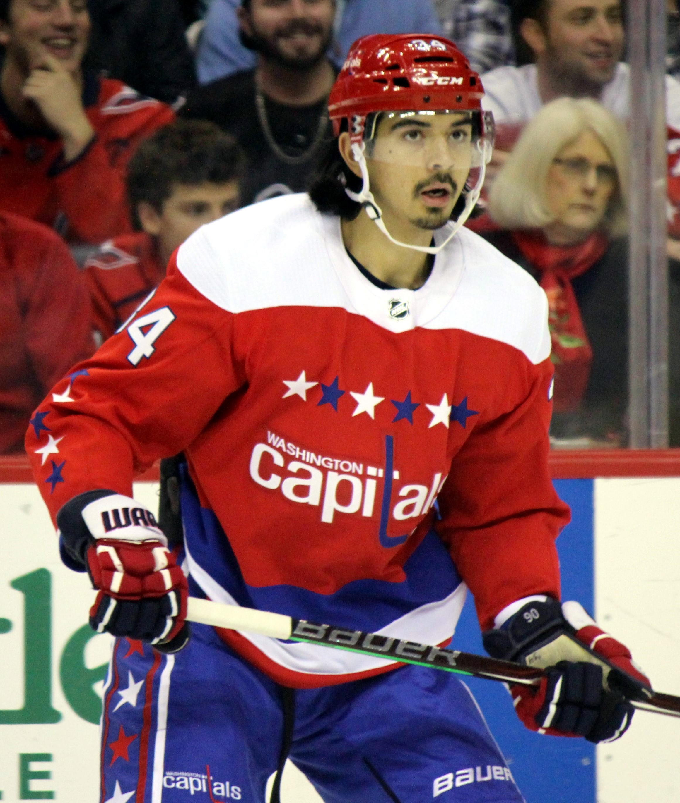 Washington Capitals Jonas Siegenthaler during a game against the Pittsburgh Penguins, December 19, 2018, at Capital One Arena in Washington, D.C.